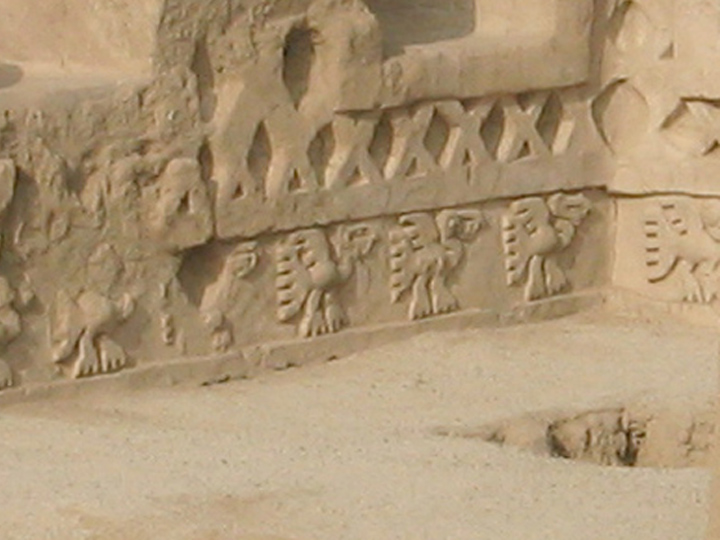 View of Chan Chan archaeological site, Peru. Photo taken and uploaded by J. Stander